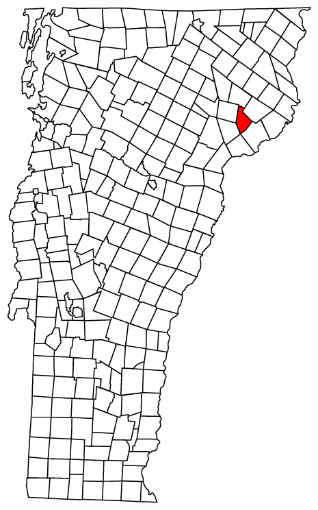 Description: Map of Vermont towns with Kirby highlighted Source: Map created by Jared C. Benedict on 26 March 2004. Copyright: © Jared C. Benedict.